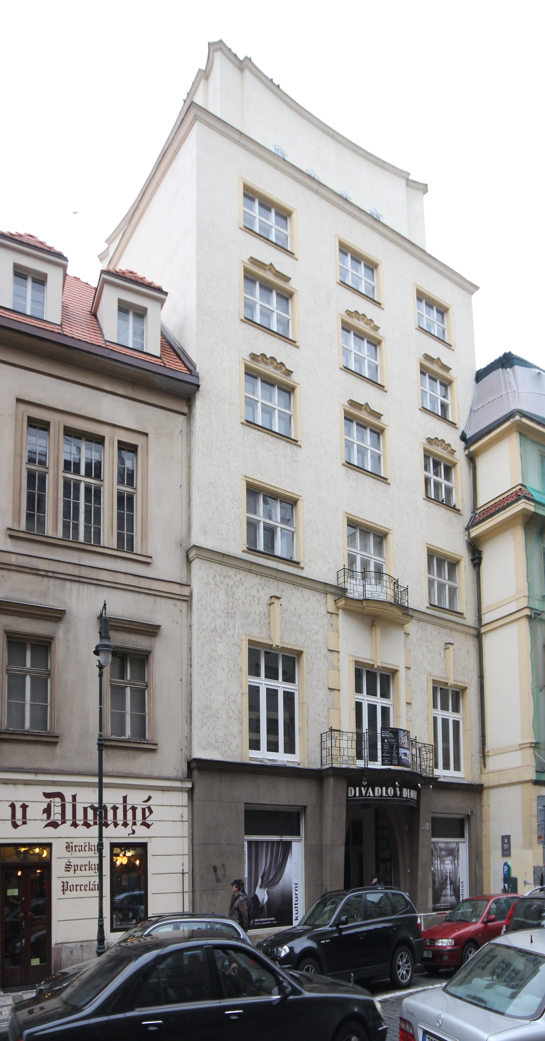 Paul Sydow: Dlouha palace No. 727, Praha 1-Staré Město, Dlouhá 39, 1928-1929. Elevation Dlouhá street.